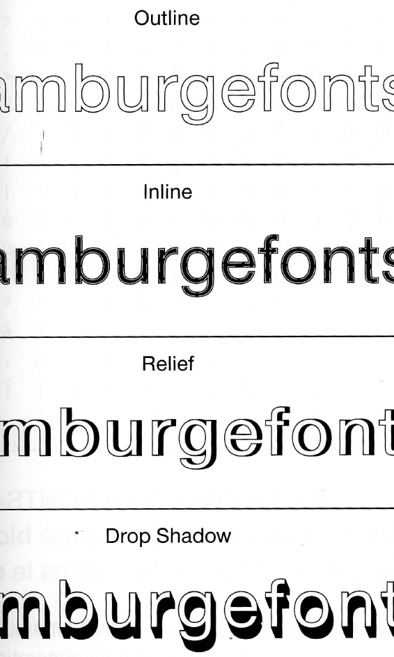 electronical typeface variations 1973